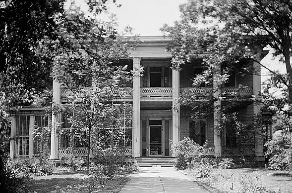 Front view of Goodwin-Harrison House, Macon, Noxubee County, Mississippi, USA. Constructed in 1852; added to National Register of Historic Places 1980-11-28. Image courtesy of Historic American Buildings Survey—HABS.